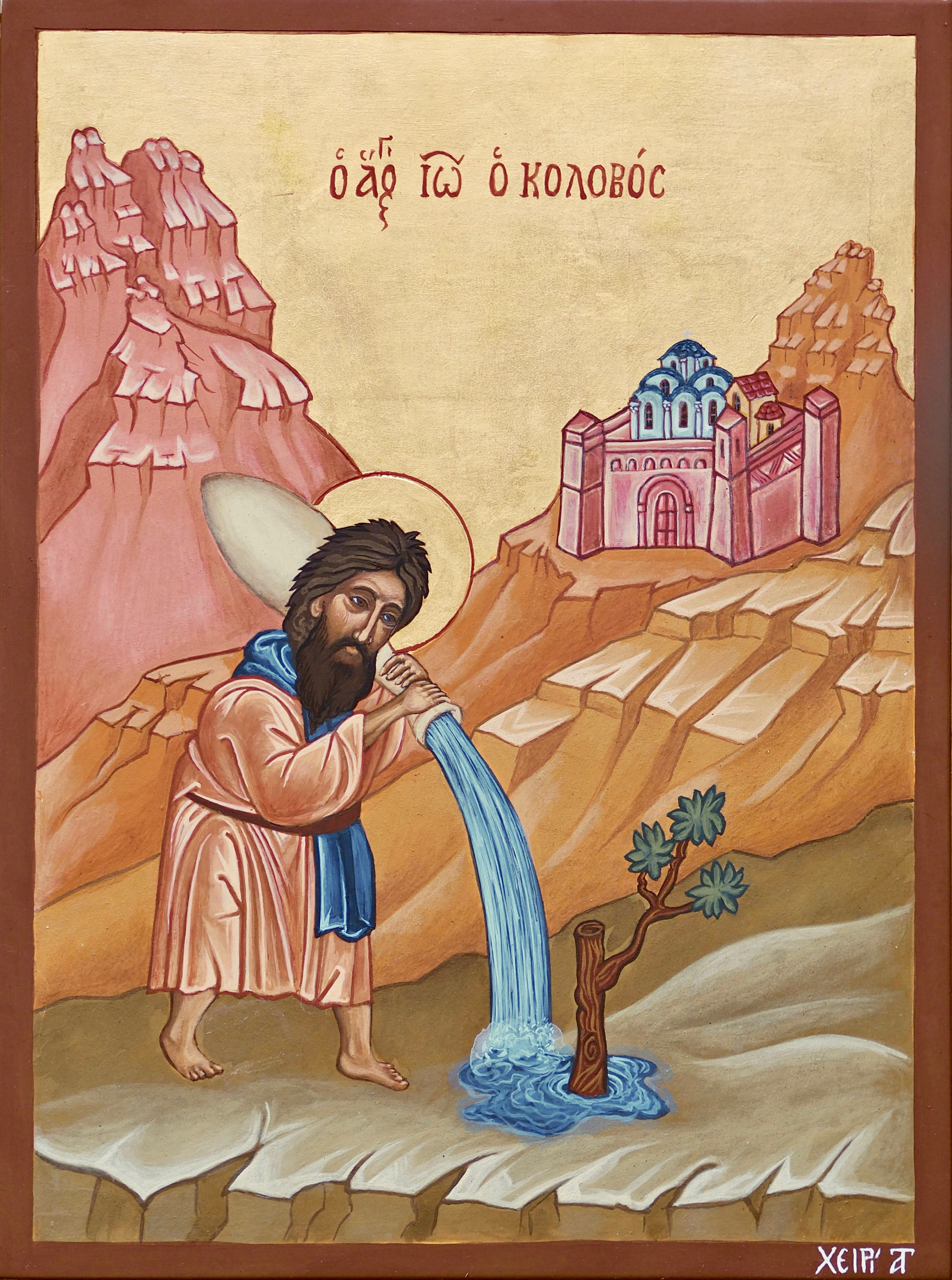 icon of John the Dwarf